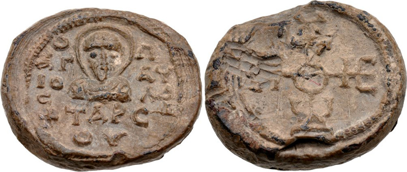 Theodore. Metropolitan of Tarsus, 7th century AD. PB Seal (25mm, 17.90 g, 12h). Facing bust of St. Paulos Apostolos; TAPC/OV in exergue / ΘEOΔωP_ MHTPOΠOΛIT_ in cruciform monogram. BLS I 2965a. VF, dusty earthen and gray patina, scrape on reverse. A seal similar to this has been assigned to the metropolitan of Tarsos named Theodore who participated in the Sixth Ecumenical Council held in Constantinople in 680-1. The purpose of the council was to settle the controversy over Monotheletism, a theological movement that was intended to serve as a compromise between Orthodox Christians and Monophysites but which ultimately resulted in further quarreling.